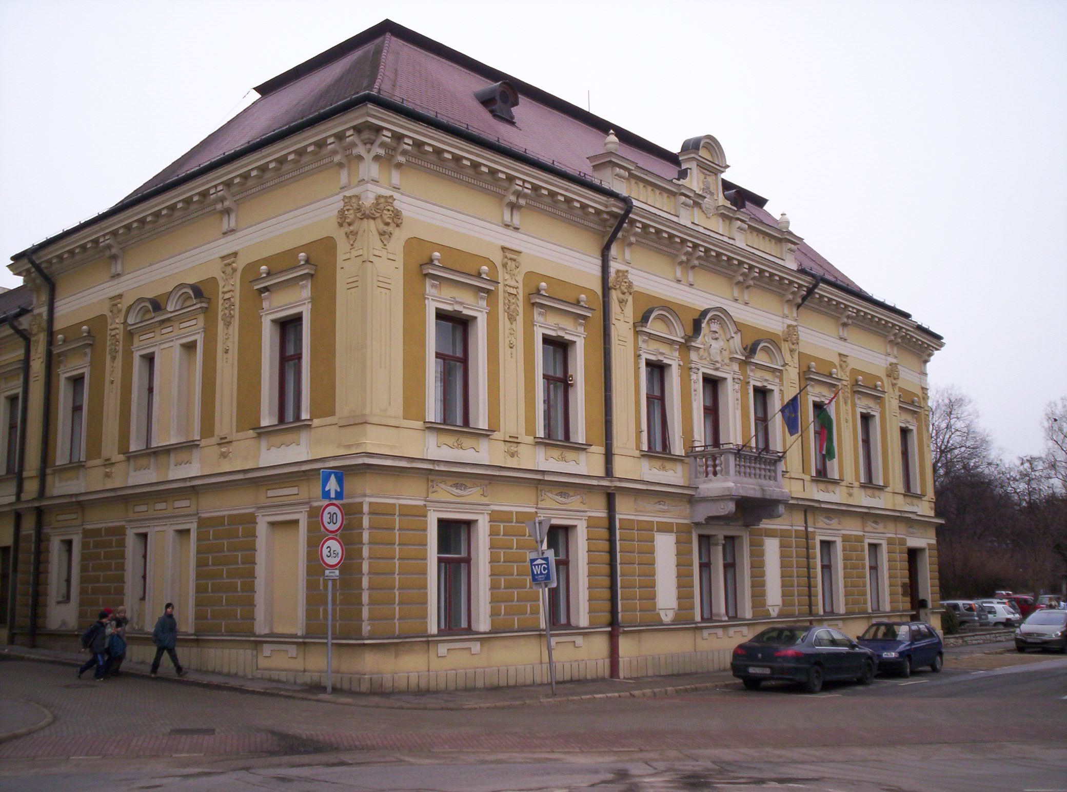 Description: The former Lord Lieutenant’s Residence next to the County Hall, Veszprém